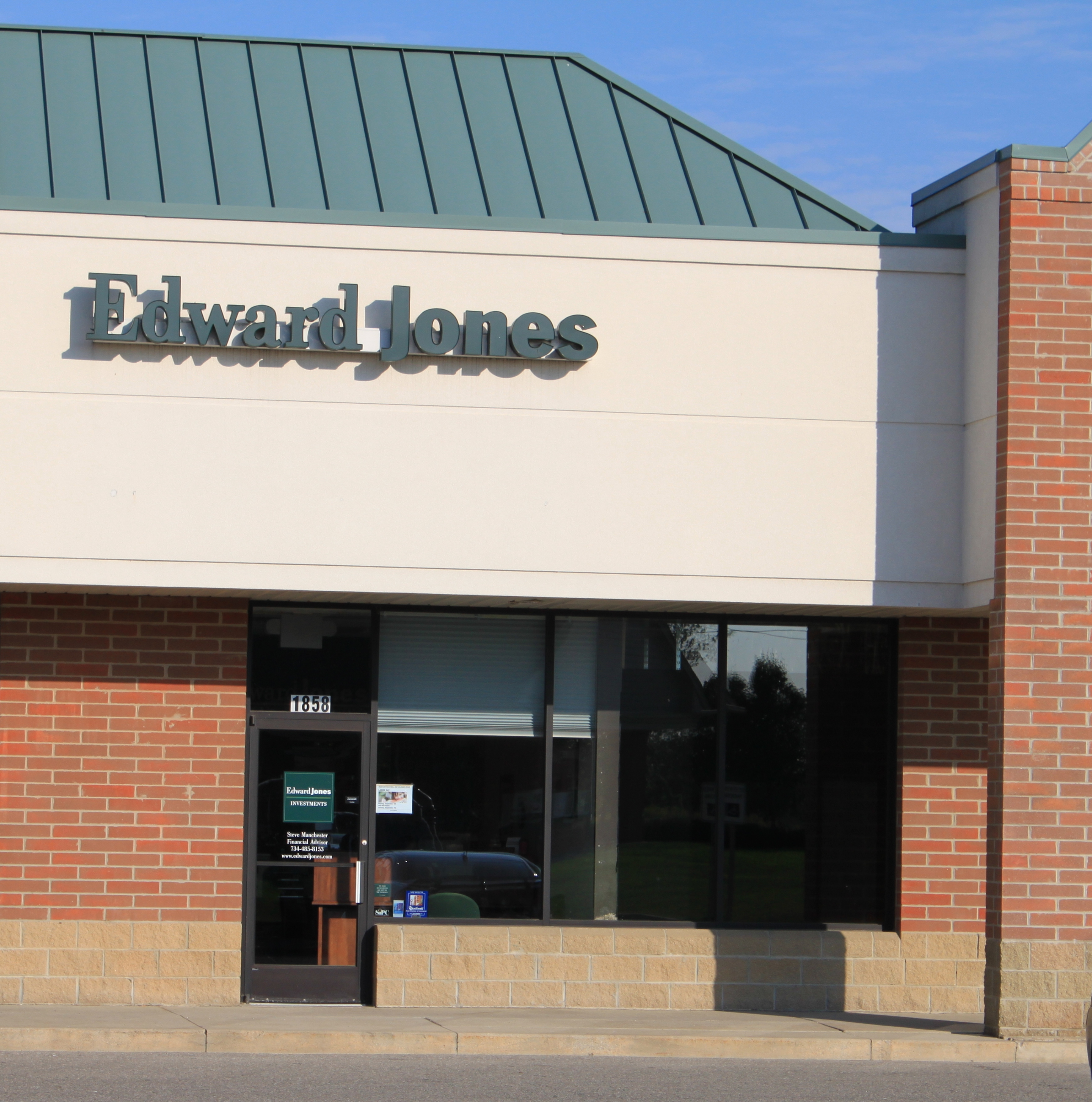 Edward Jones branch, 1858 Whittaker Road, Ypsilanti Township, Michigan